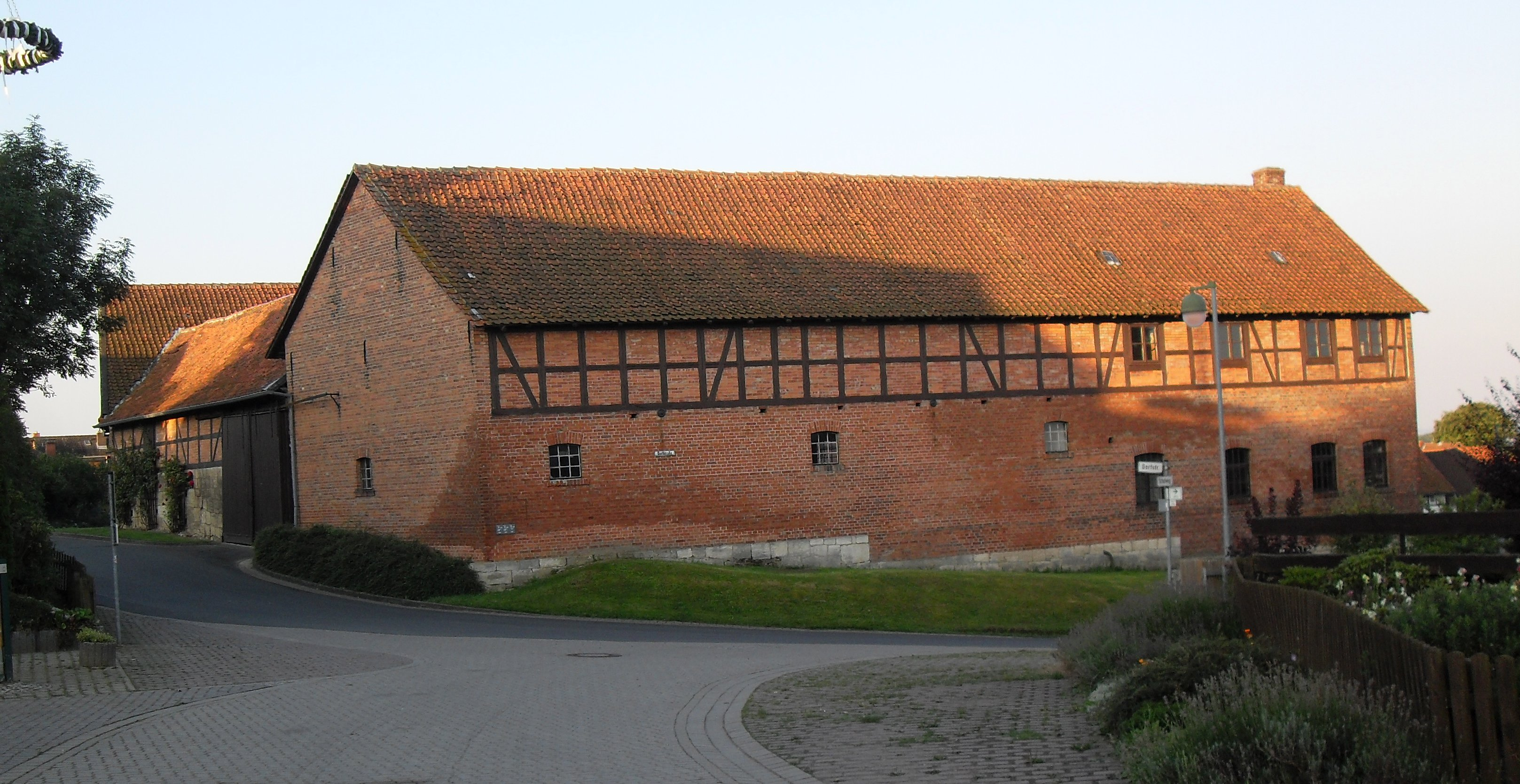 historic farm building in Hemkenrode, Lower Saxony, Germany